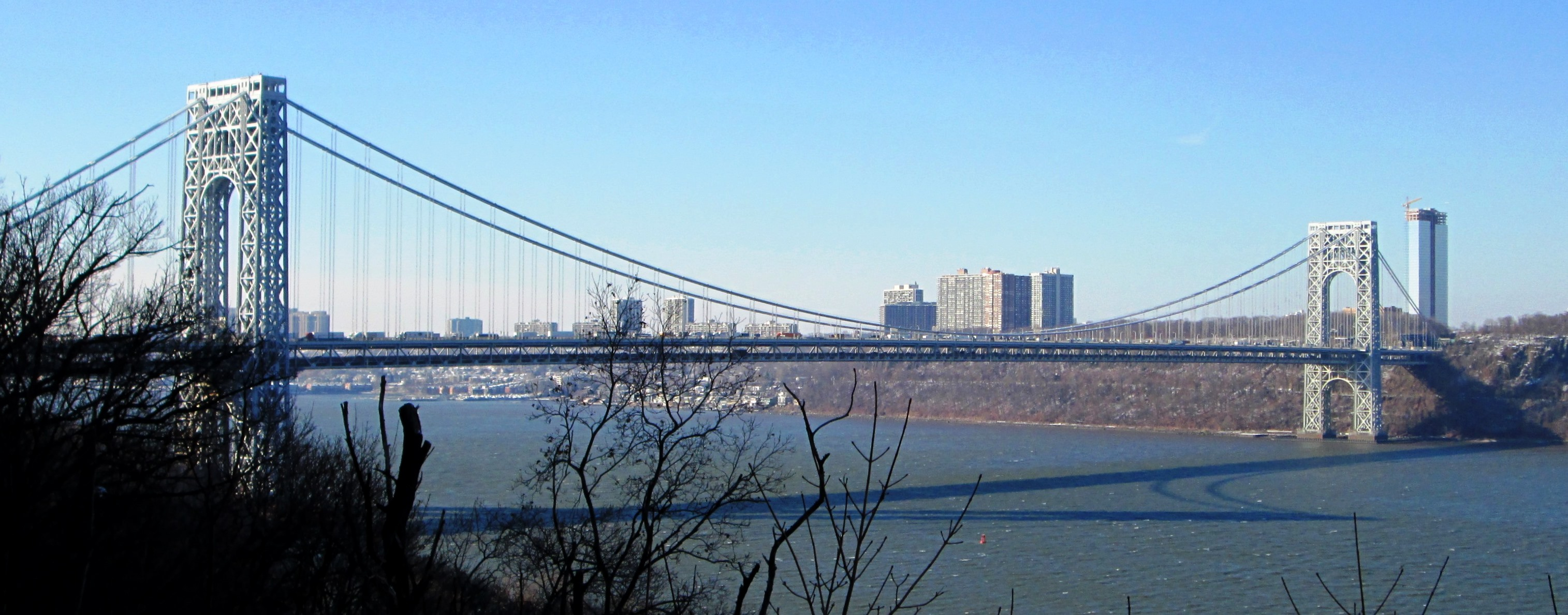 The George Washington Bridge as seen from West 187th Street at Chittenden Avenue in Hudson Heights.